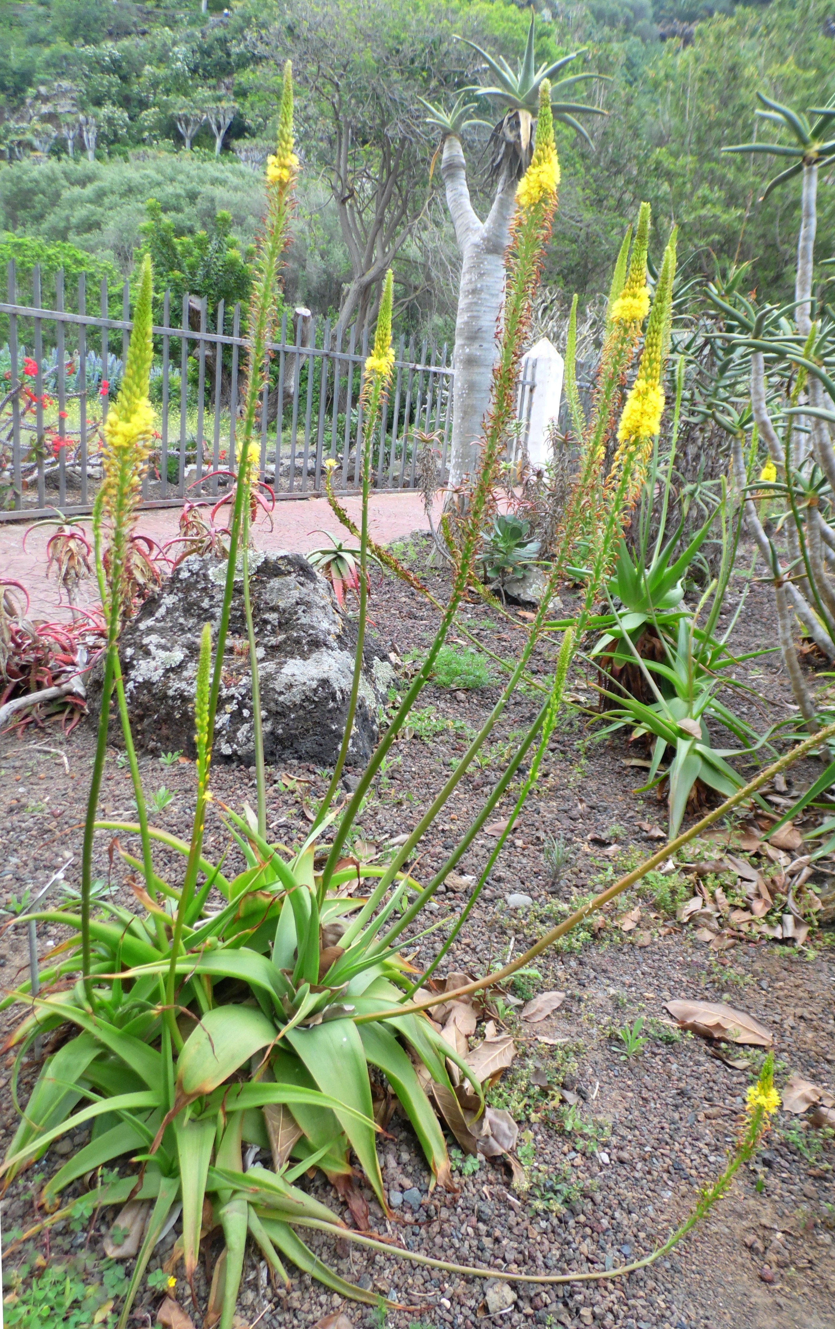 Bulbine alooides in Jardín Botánico Canario Viera y Clavijo